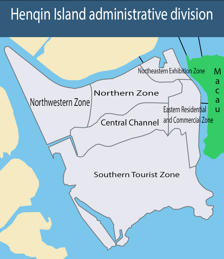 Administrative sub-districts of Hengqin New Area, Zhuhai, Guangdong, China.